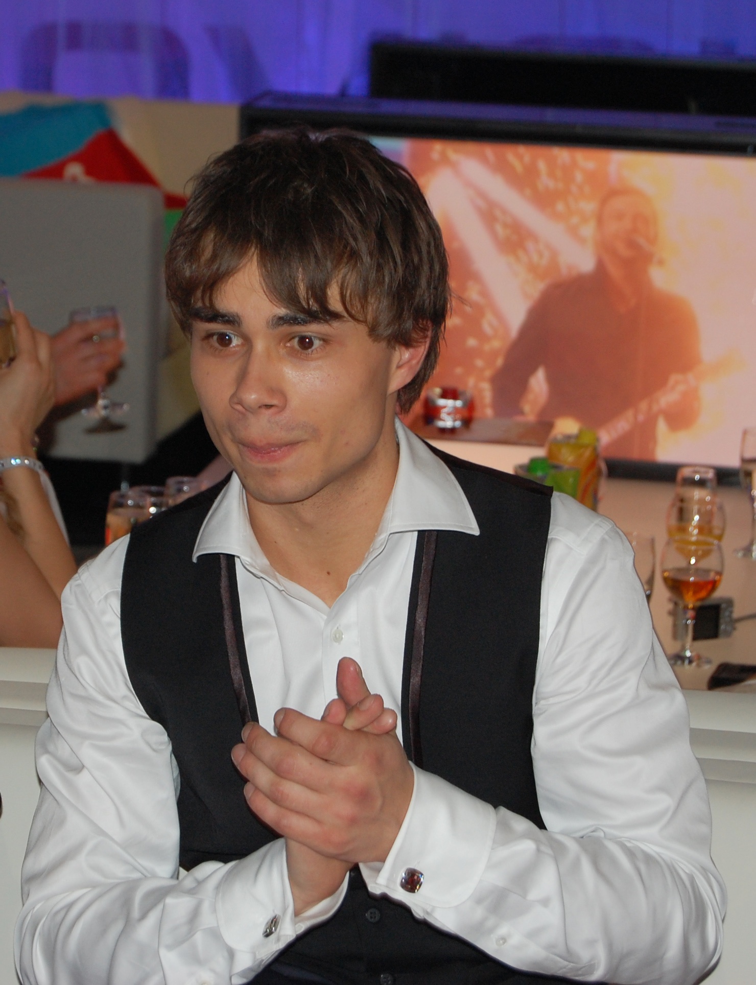 Alexander Rybak at the Eurovision Song Contest 2009 in Moscow